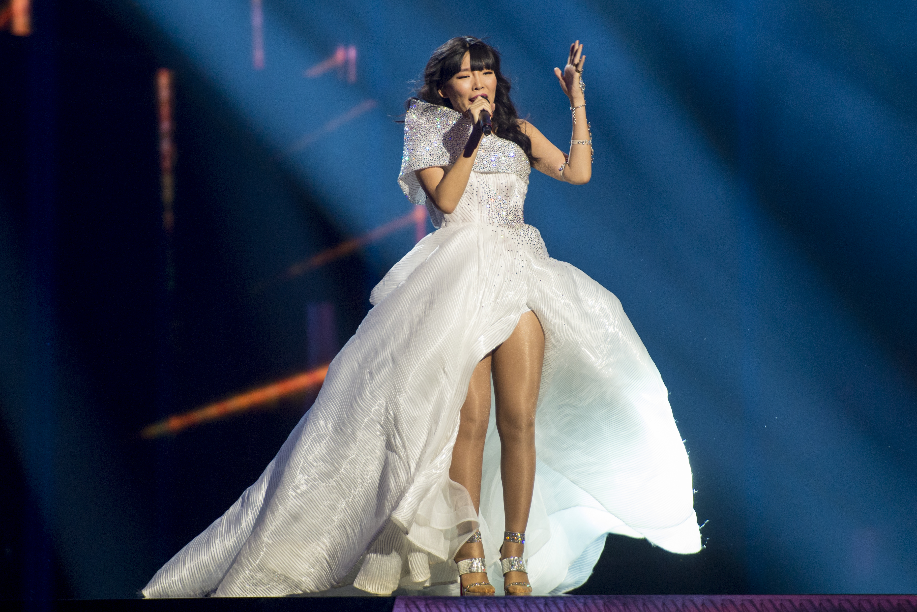 Dami Im representing Australia with the song "Sound of Silence" during a rehearsal before the second semi final of the Eurovision Song Contest 2016 in Stockholm. (Help translate this text)